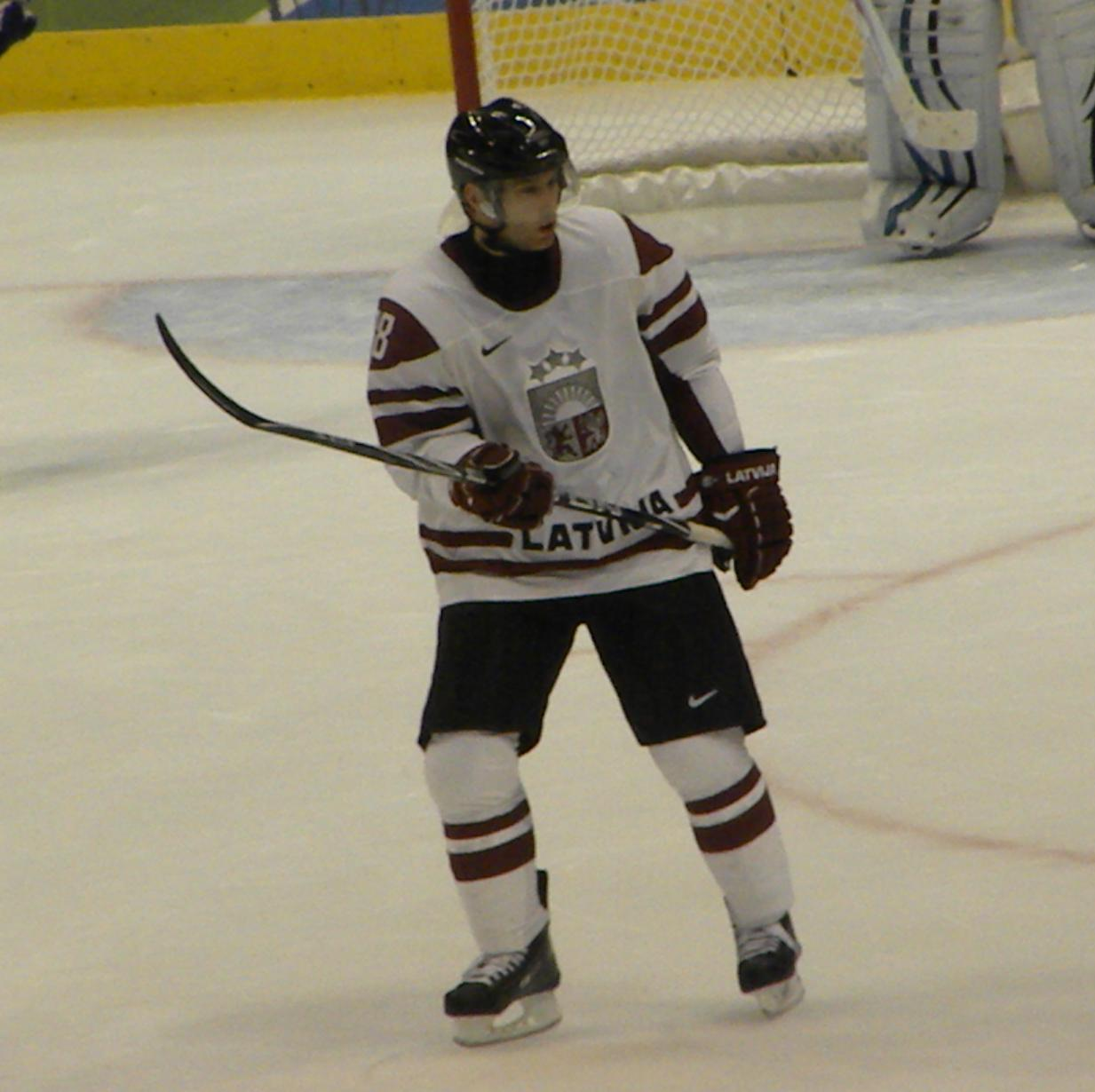 Aleksejs Sirokovs of the Latviamen's national ice hockey team, warming up before a match against the Russia men's national ice hockey team in the 2010 Winter Olympics at Canada Hockey Place on February 16, 2010.